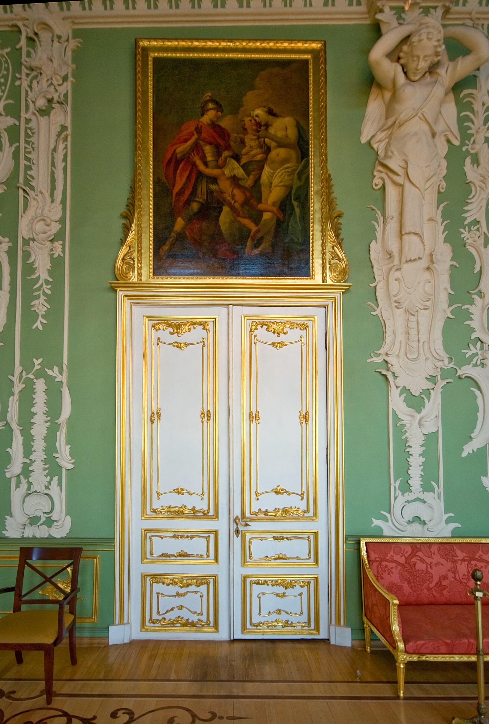 GRAND HALL, Stroganov Palace The interior was designed after the architect Francesco Rastreili's project in the 1750s who had not Finished his work. The plafond represents a painterly composition painted by Italian master Valeriani (central part) and Antonio Pcresitotti. Dessus des portes (paintings above the doors) were painted by unknown master and show Aeneas' story. The restoration was carriied oui with intervals in 1993-2003.